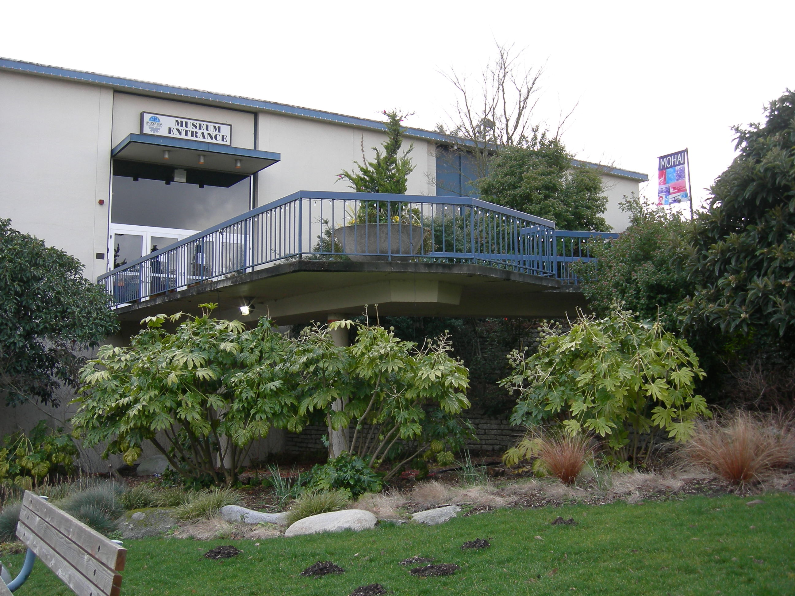 Museum of History and Industry (MOHAI), McCurdy Park, Montlake, Seattle, Washington, seen from lower parking lot.